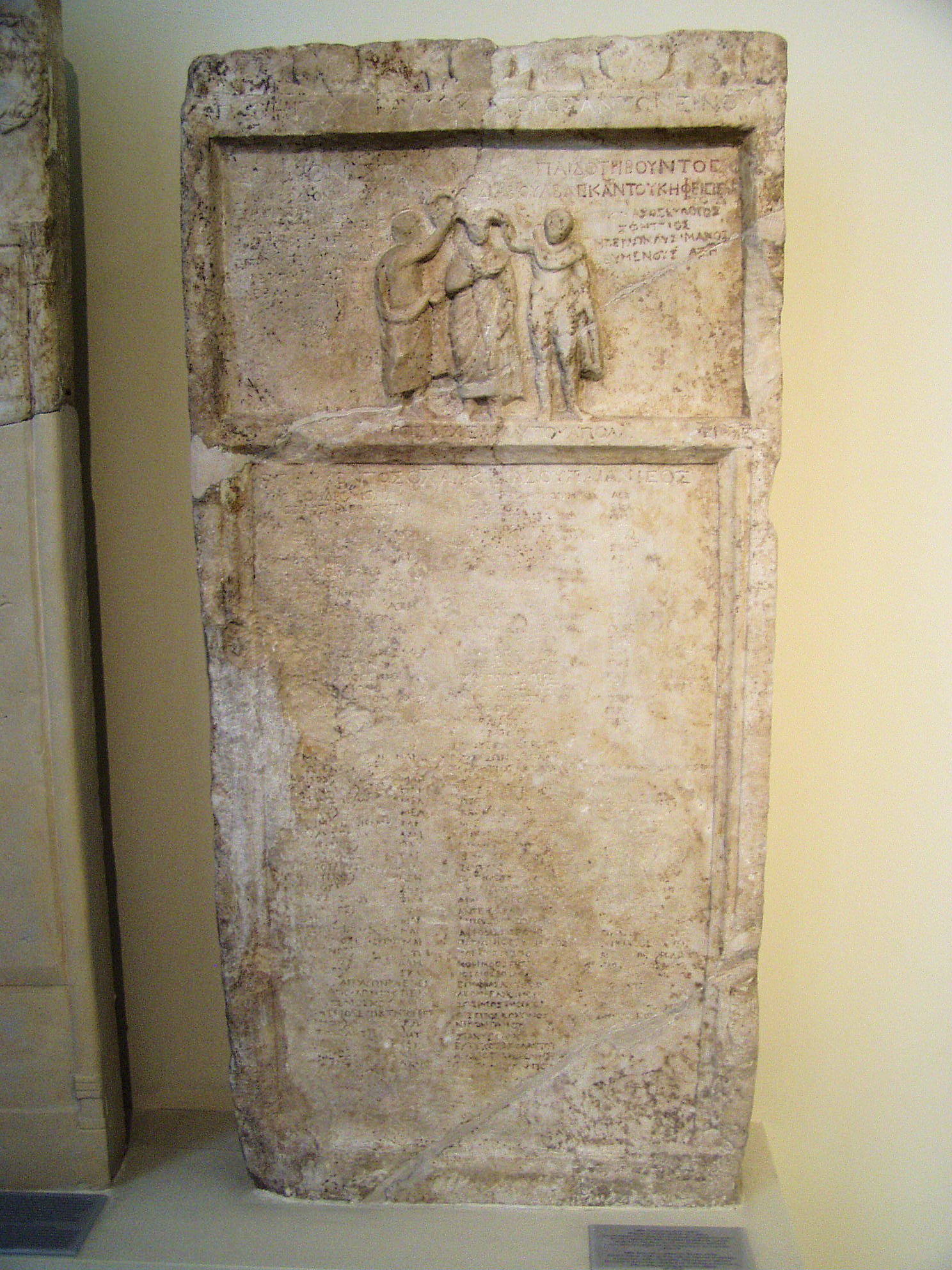 Stele with an ephebic list at the NAMA, Nr 1484.